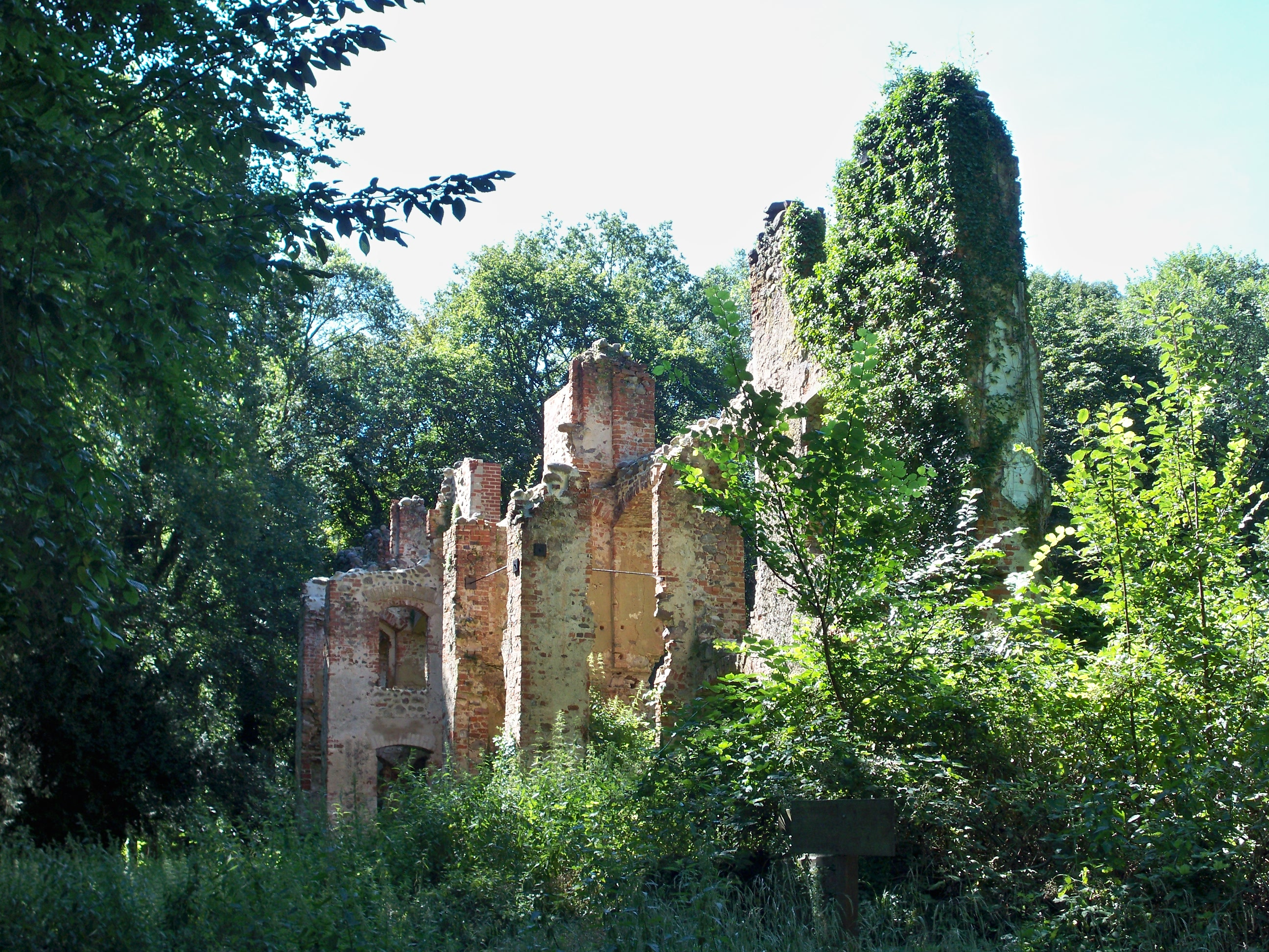 Tylsen, Salzwedel, Saxony-Anhalt, former Neues Schloss ("New Castle")